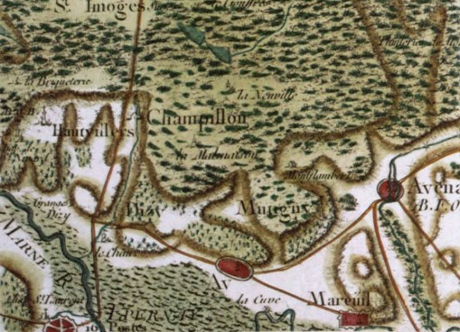 Map of Cassini of Aÿ, Marne